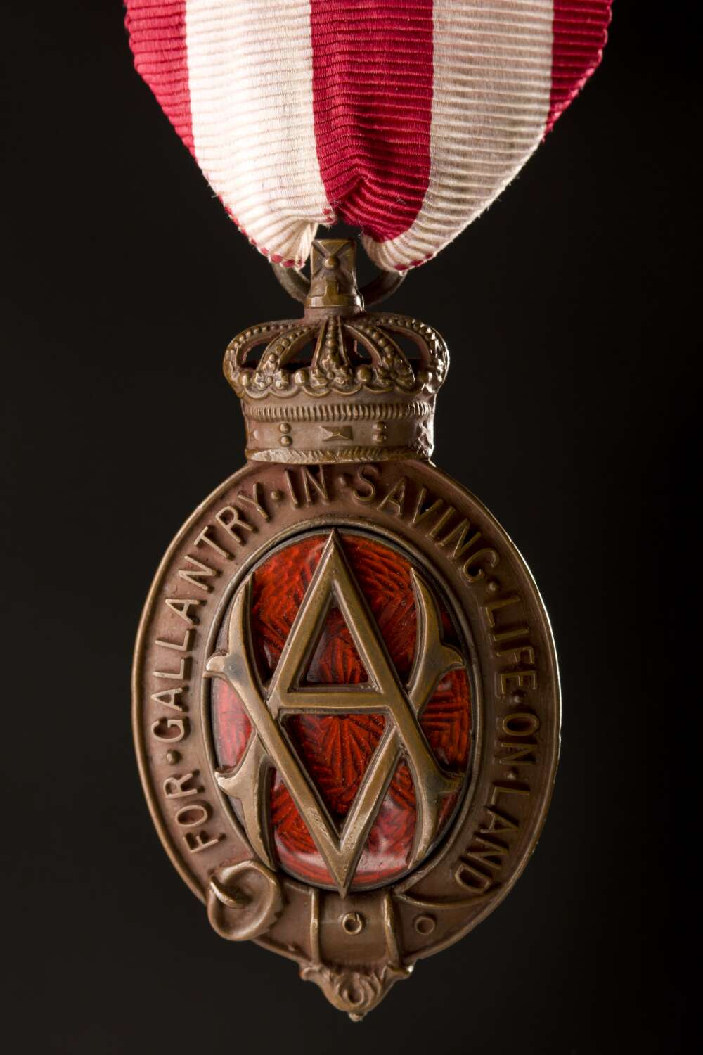 Realia - PIC MSR 12/1/2 #A40006921